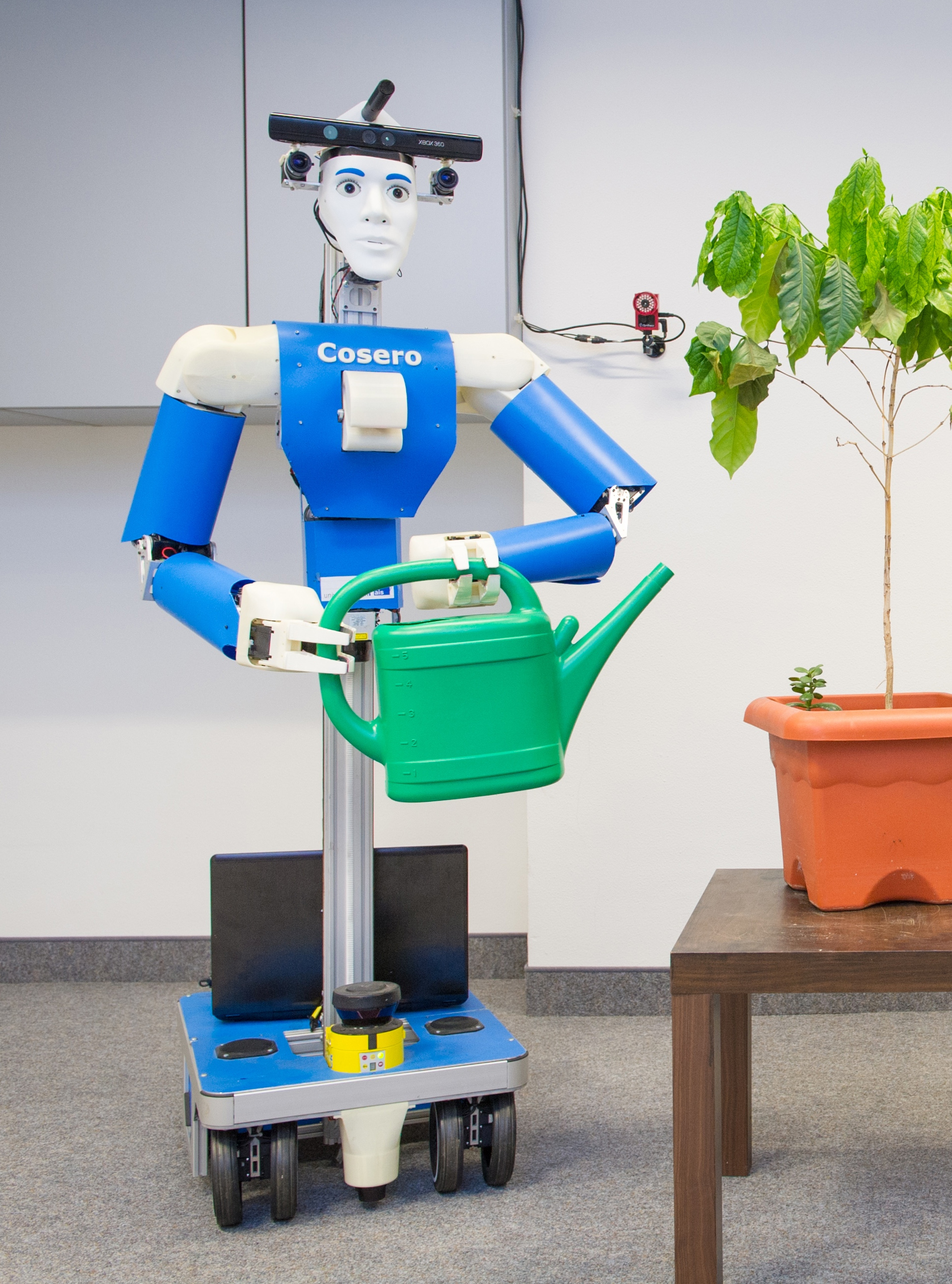 The Cognitive Service Robot Cosero was developed in the Autonomous Intelligent Systems group of University of Bonn, Germany. It won as part of team NimbRo@Home three international RoboCup@Home competitions in a row (2011-2013).